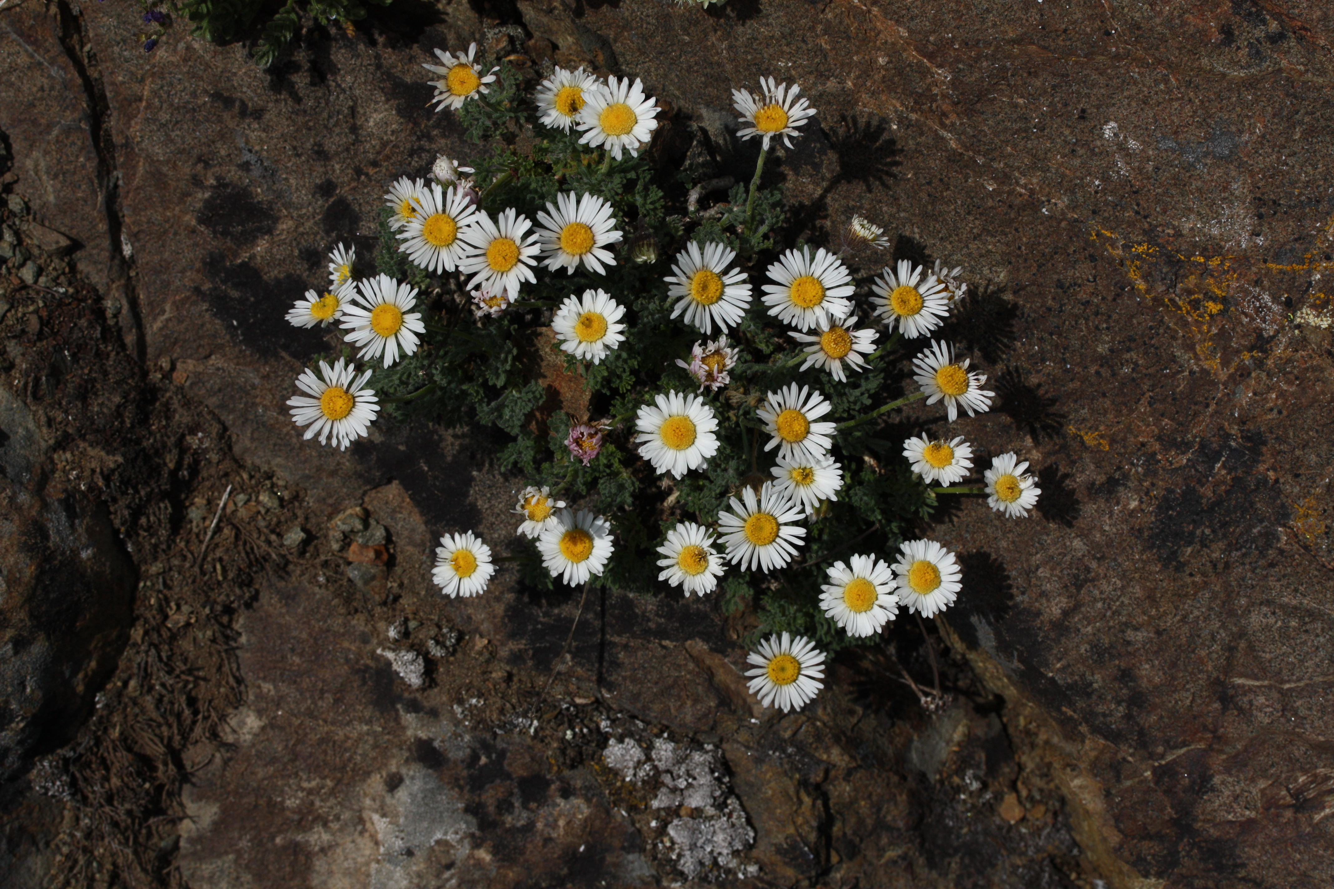 Cutleaf Daisy, Trifid Mountain Fleabane